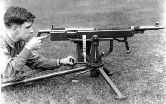 One of the later versions of the Colt-Browning M1895 machine gun is demonstrated by a US Army operator. The gun is shown mid-action, with the operating lever extending downward below the front of the barrel.